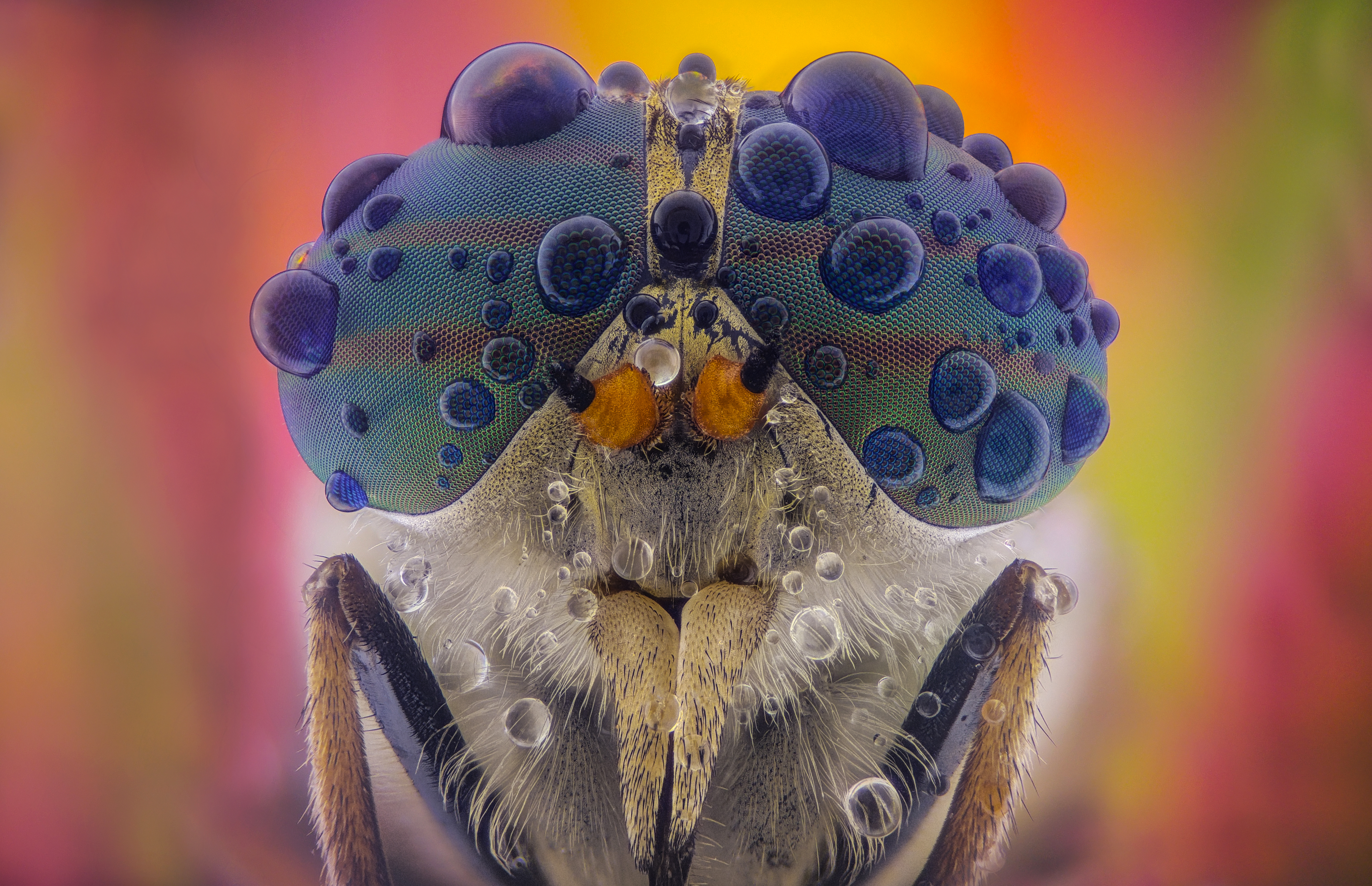 Horse Fly